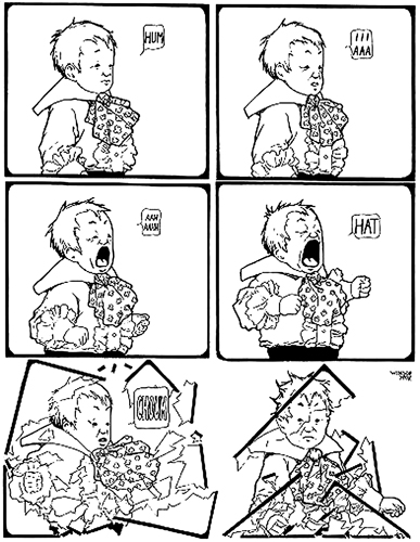 24 September 1905 episode of the Little Sammy Sneeze comic strip (1904-1906). Created by Winsor McCay (1871-1934).